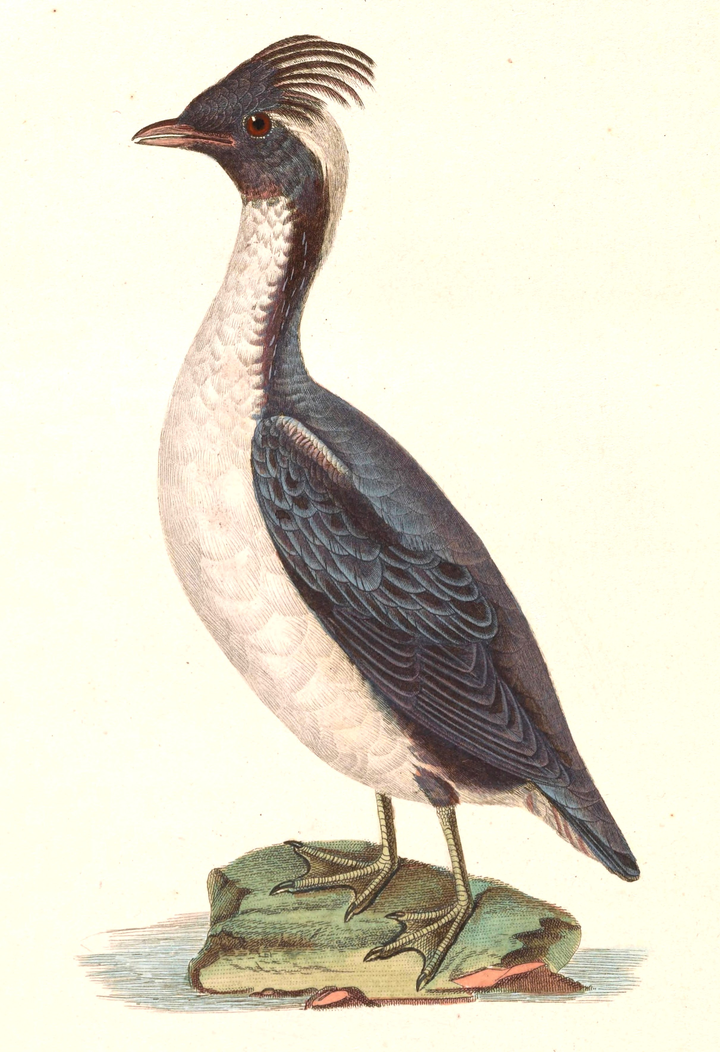 « Uria wumizusume » = Synthliboramphus wumizusume (Japanese Murrelet) - adult in summer